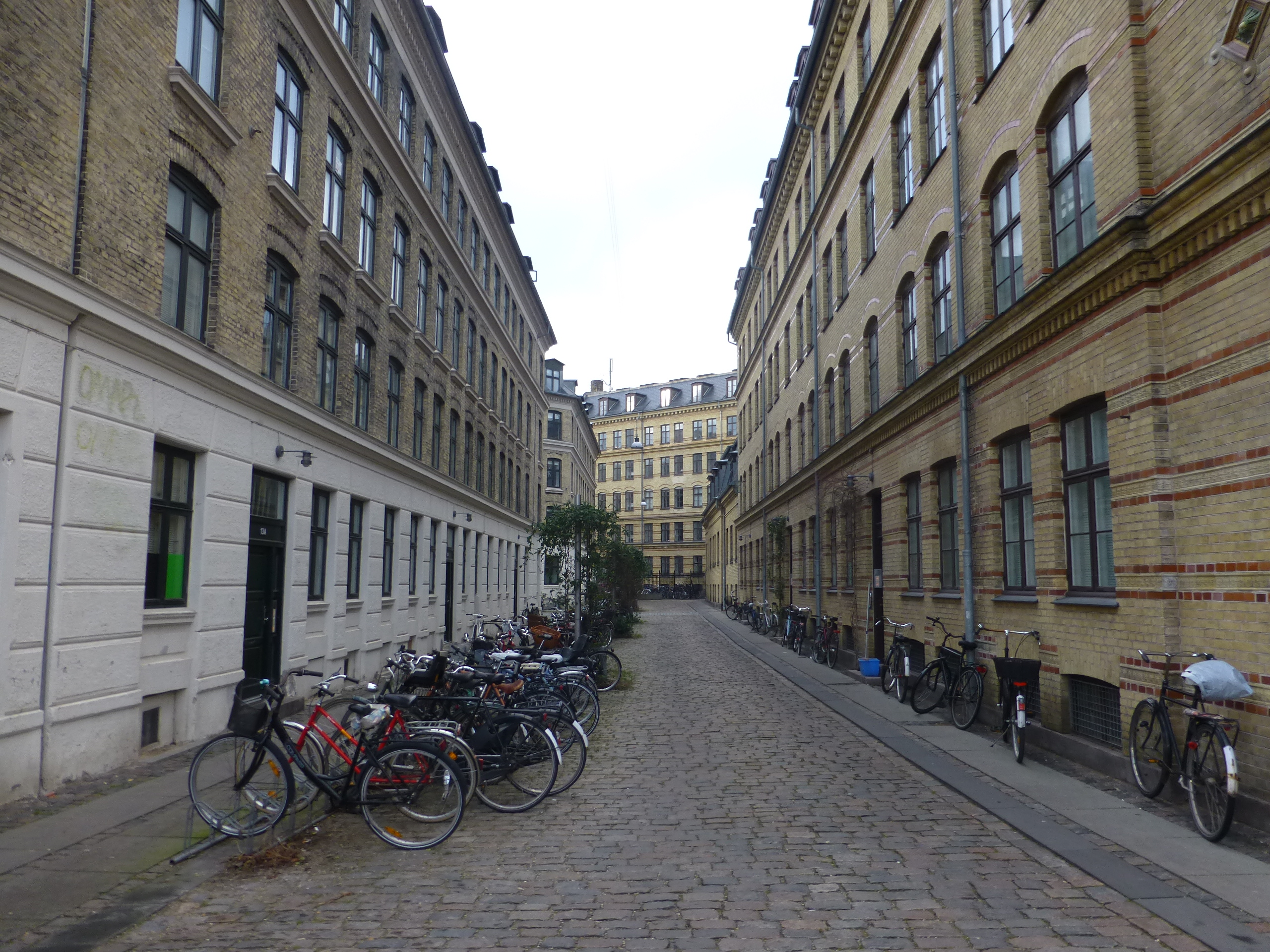 The street Günthers Passage in Nørrebro in Copenhagen.